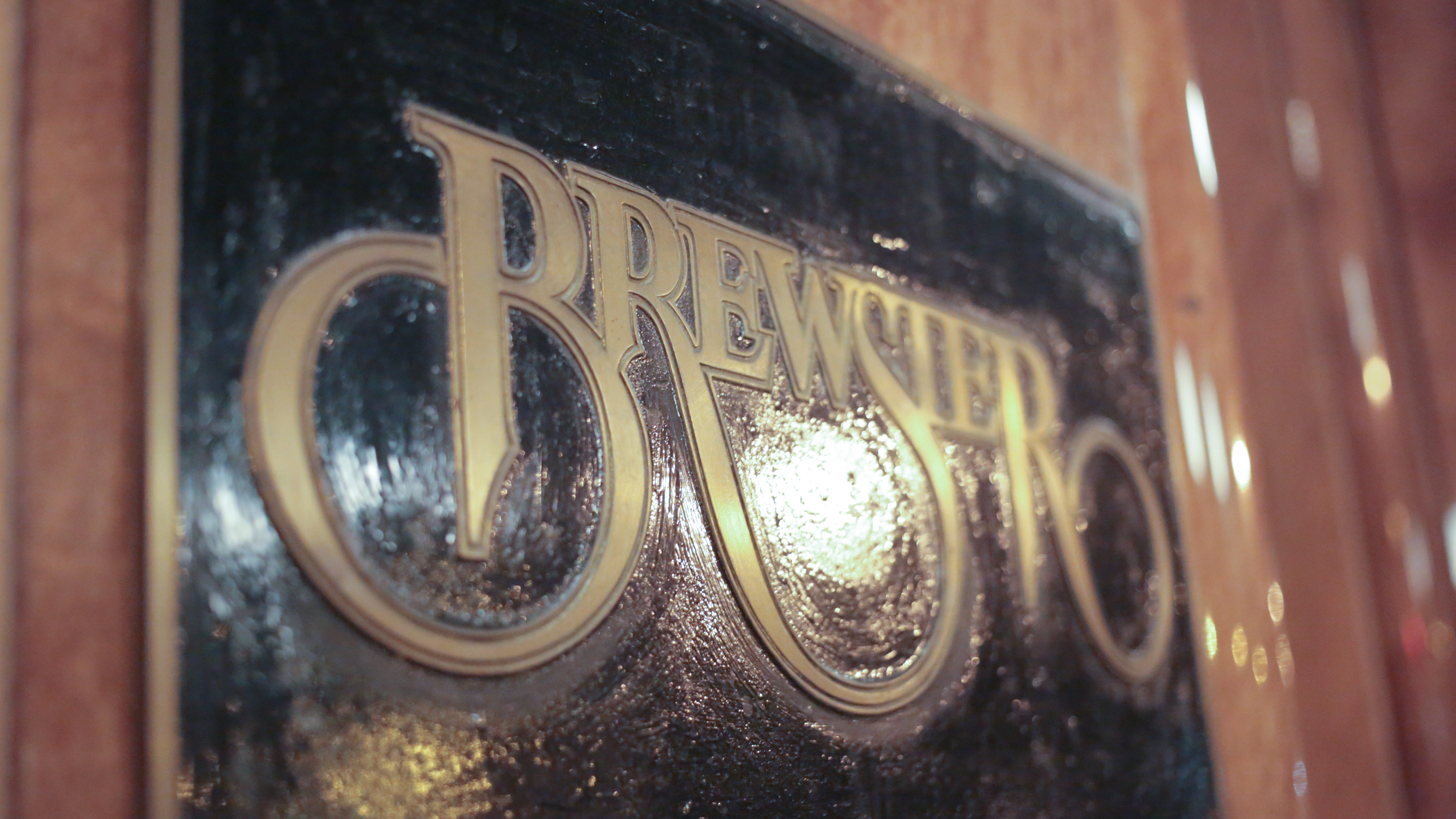 Brewster Apartments Chicago September 2 2013